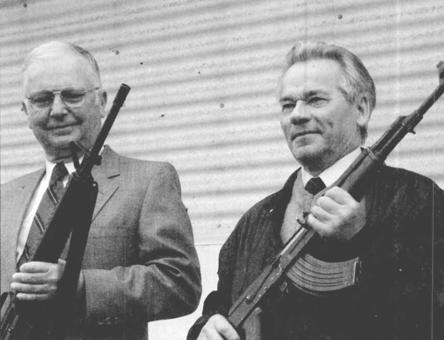 Eugene M. Stoner, left, and Mikhail T. Kalashnikov hold the assault rifles they designed, harbingering the forthcoming end of the Cold War